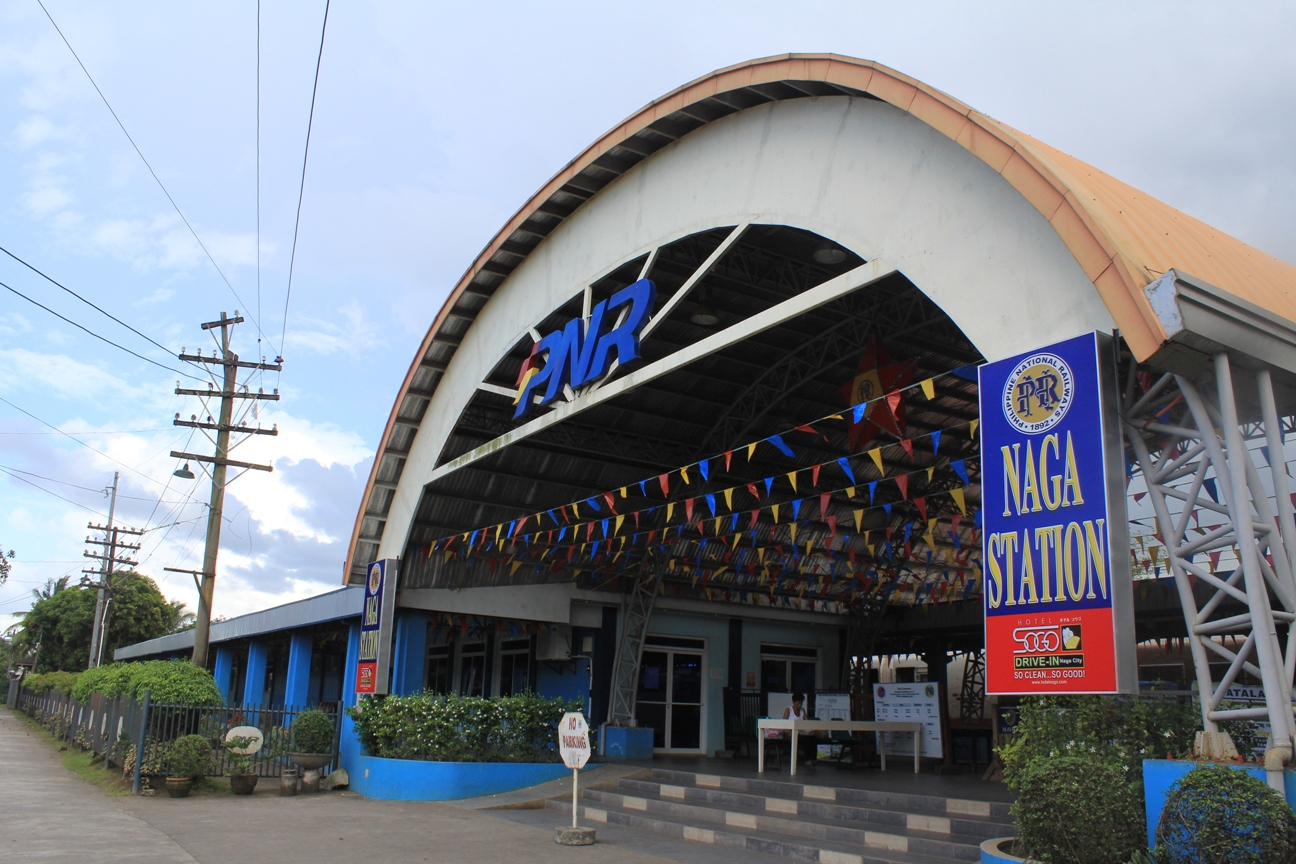 Philippine National Railways Terminal